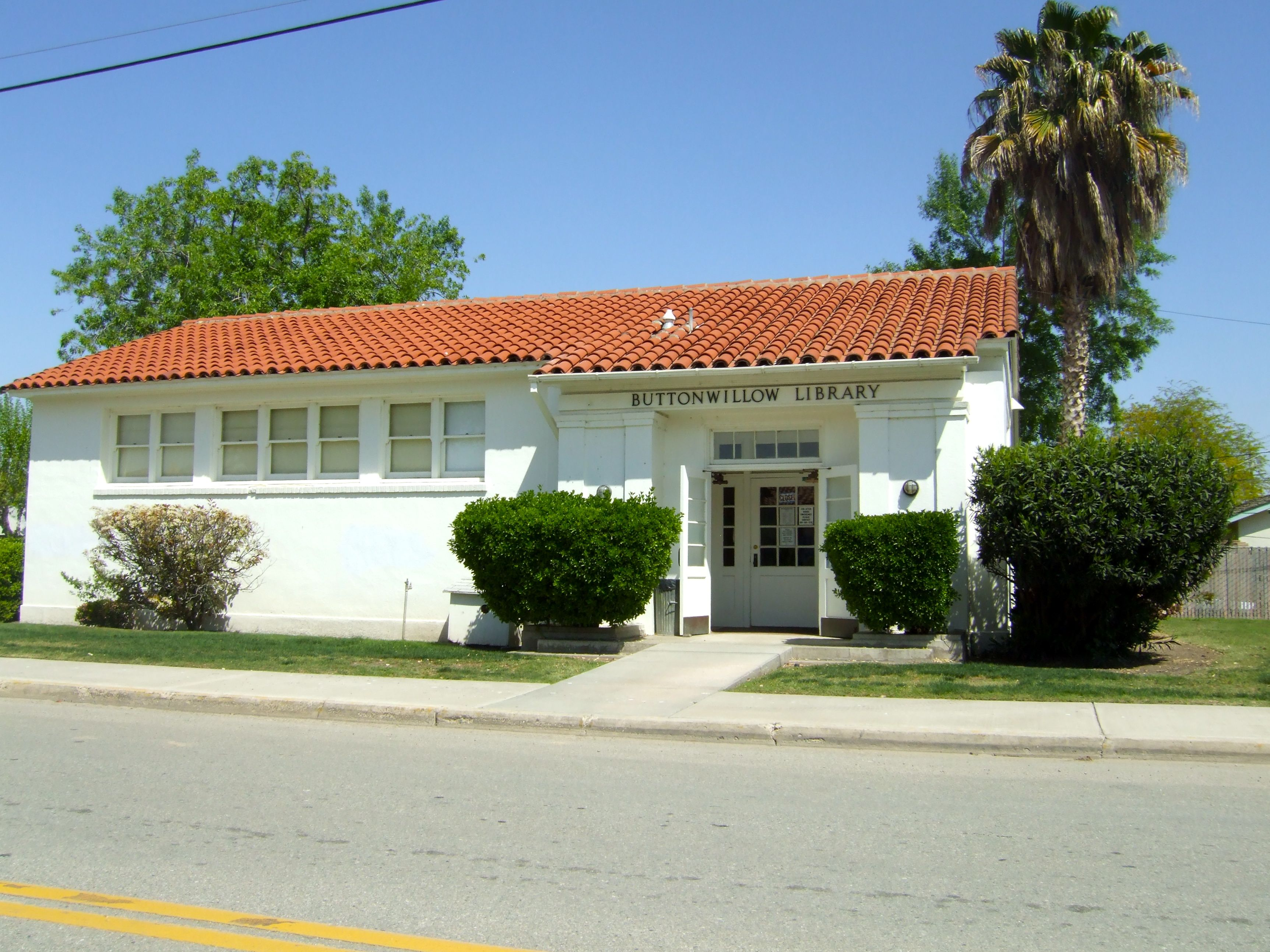 Buttonwillow, public library, 2011.jpg Other information Photo by George Garrigues.